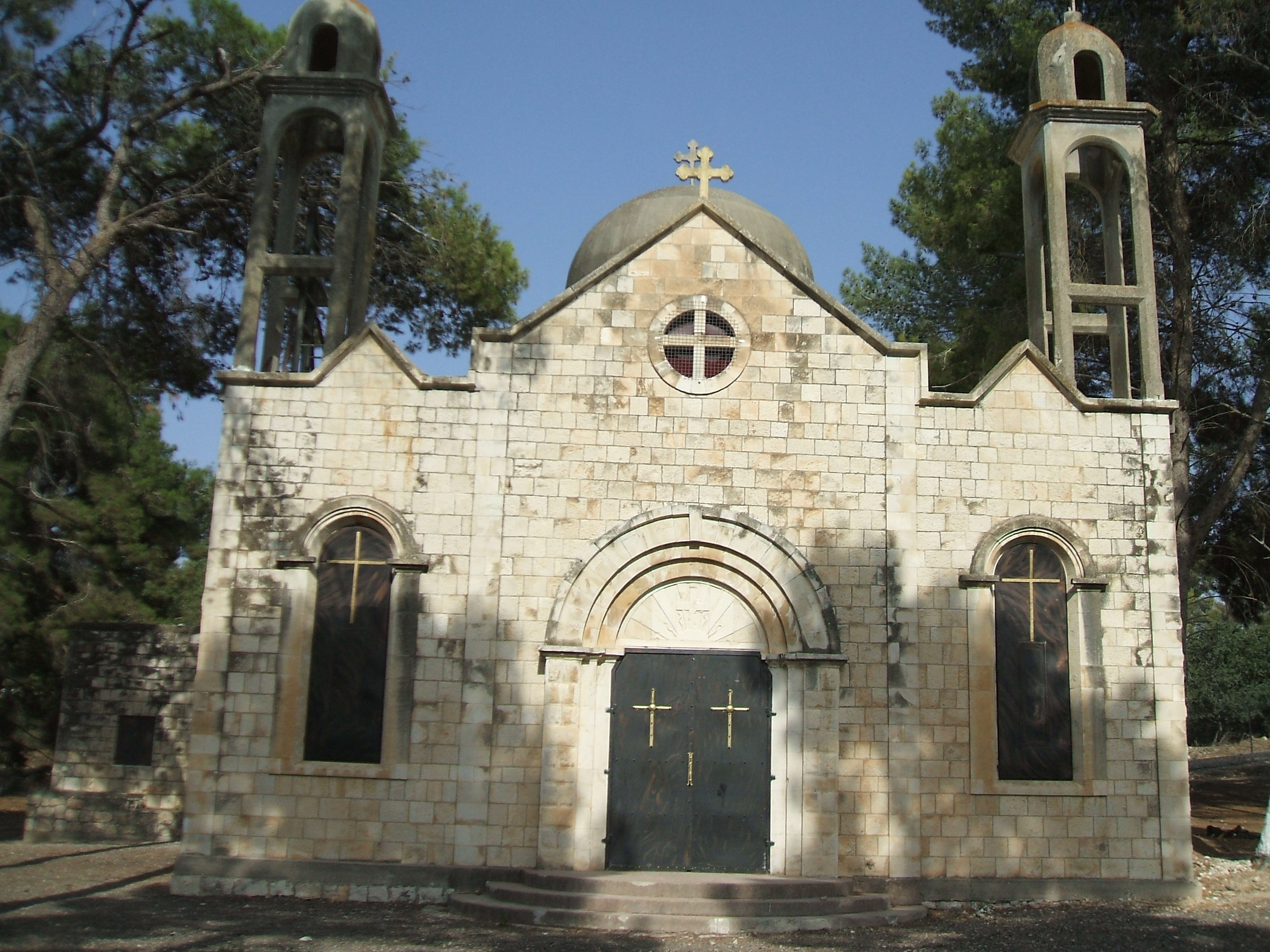 A restored church in the former village of Ma'alul near Nazareth in Israel.